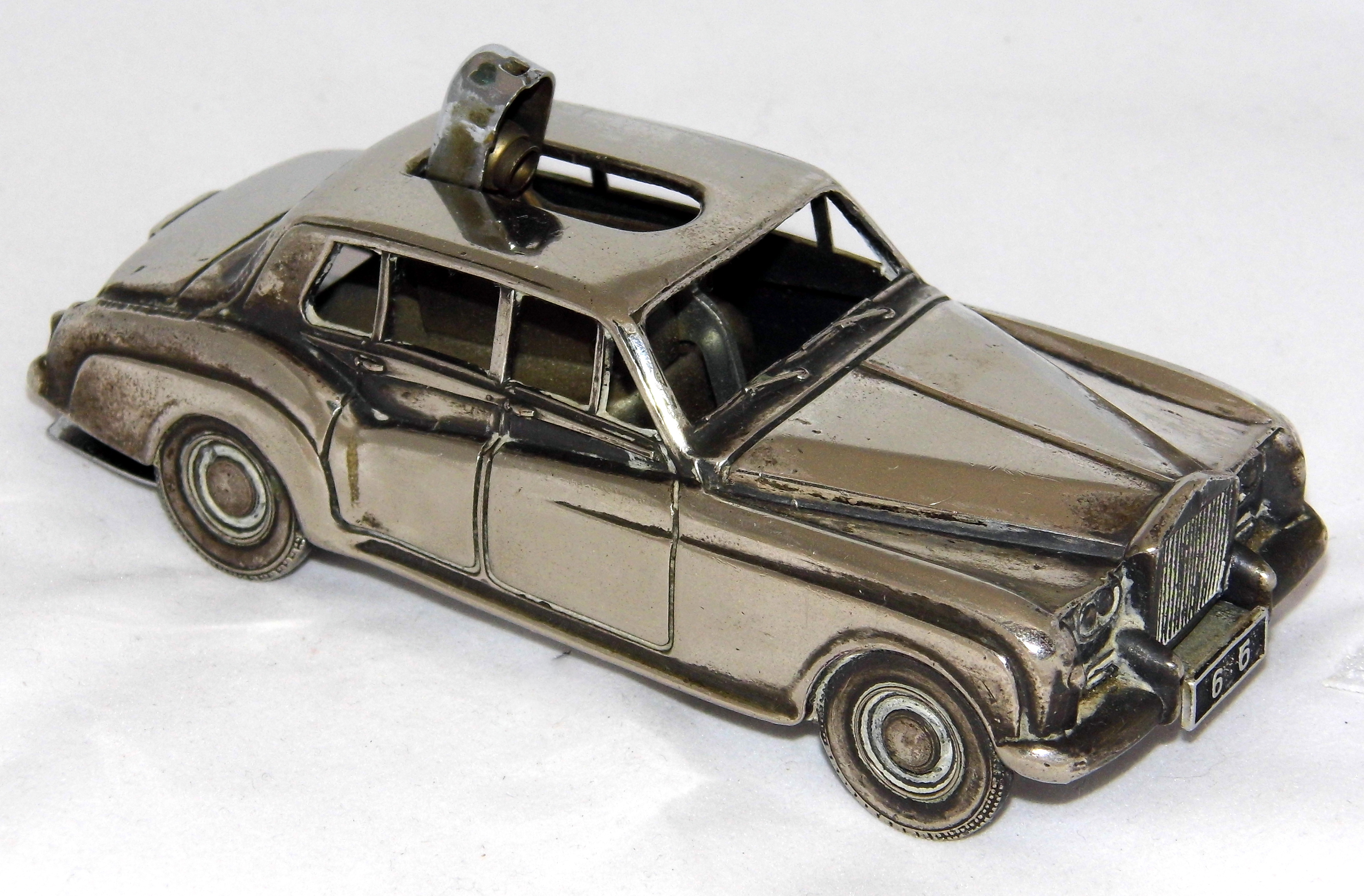 Vintage Rolls Royce Silver Plated Cigarette Lighter -- Press The Front License Plate To Trigger The Lighter